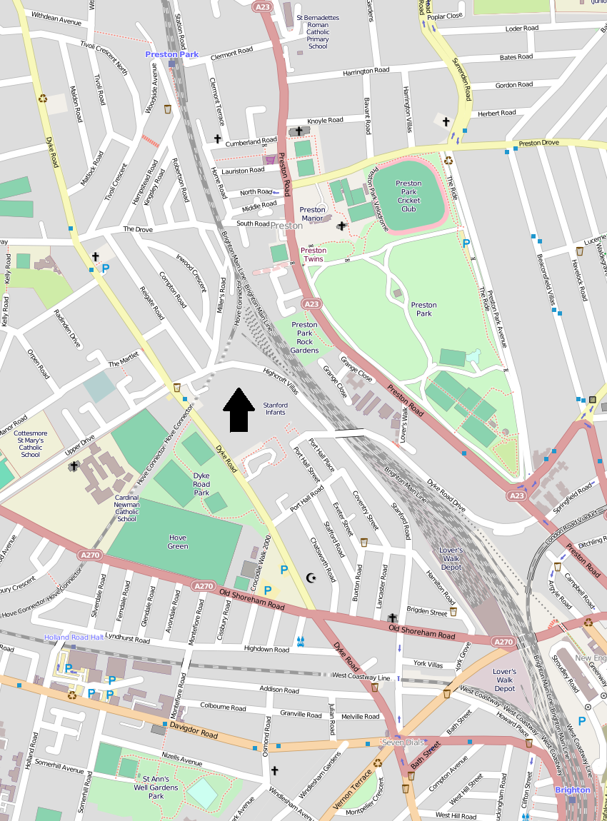 A map of the Prestonville area of Brighton, part of the English city of Brighton and Hove. The boundaries are Dyke Road, Tivoli Crescent North, Preston Park station, the London–Brighton railway line, Old Shoreham Road and Seven Dials. Derived from OpenStreetMap (permalink). North is indicated by the large arrow.